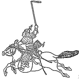 Korean horseman with flail weapon. Korean engravings 16-17 c.[1]